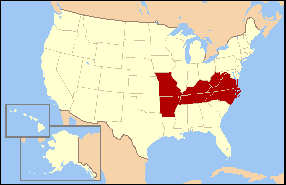 Map showing the state commonly associated with the regional term Upper South.